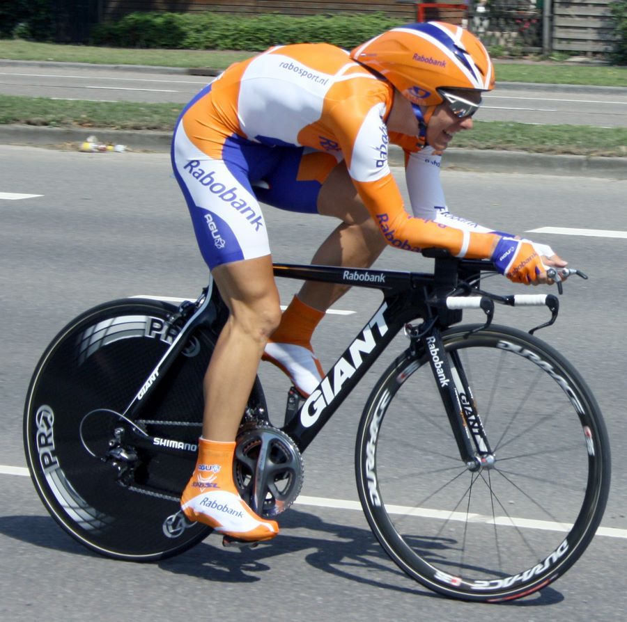 Sebastian Langeveld at the 2009 Eneco Tour prologue